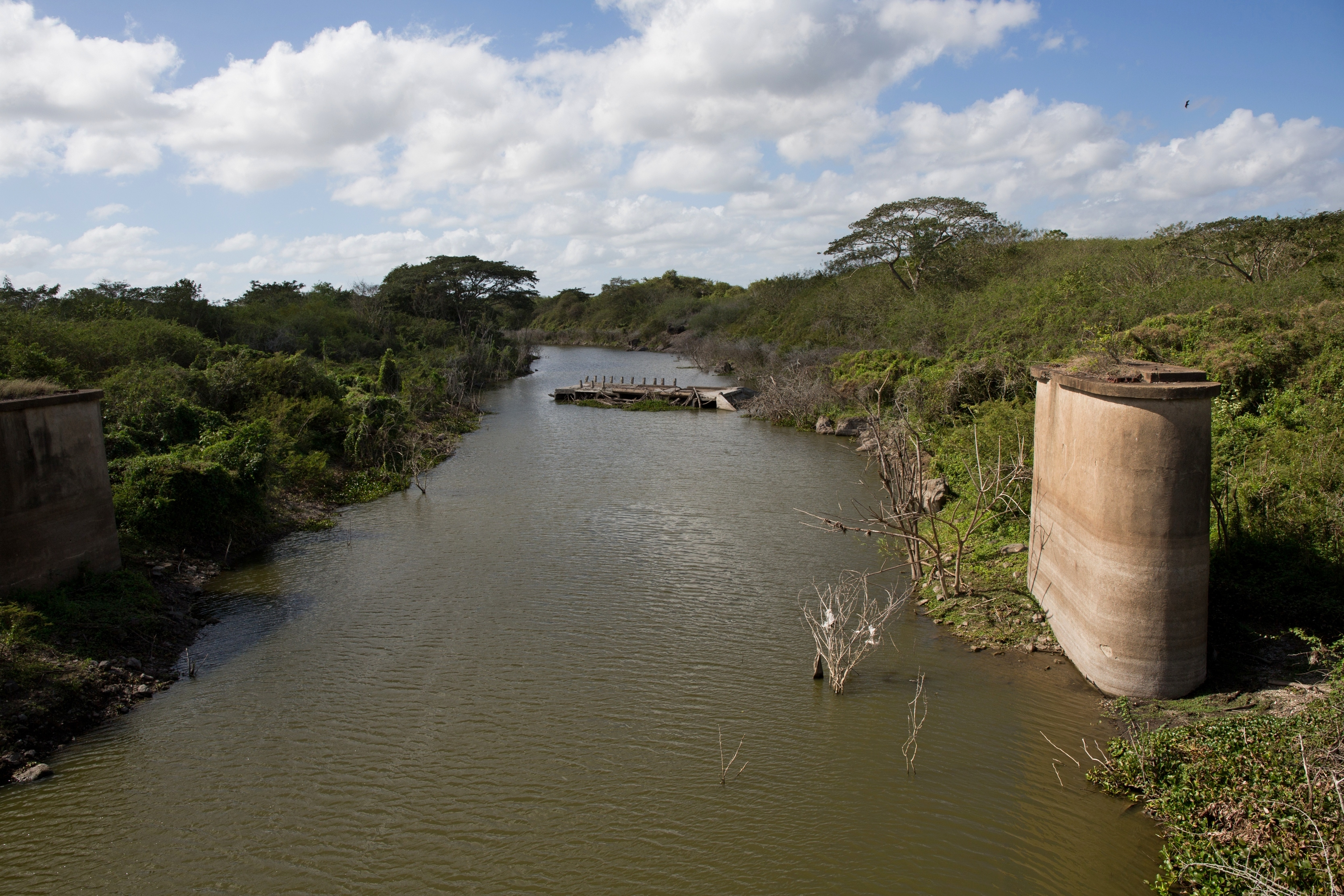 Najasa river near the the village of the same name. Camagüey province, Cuba